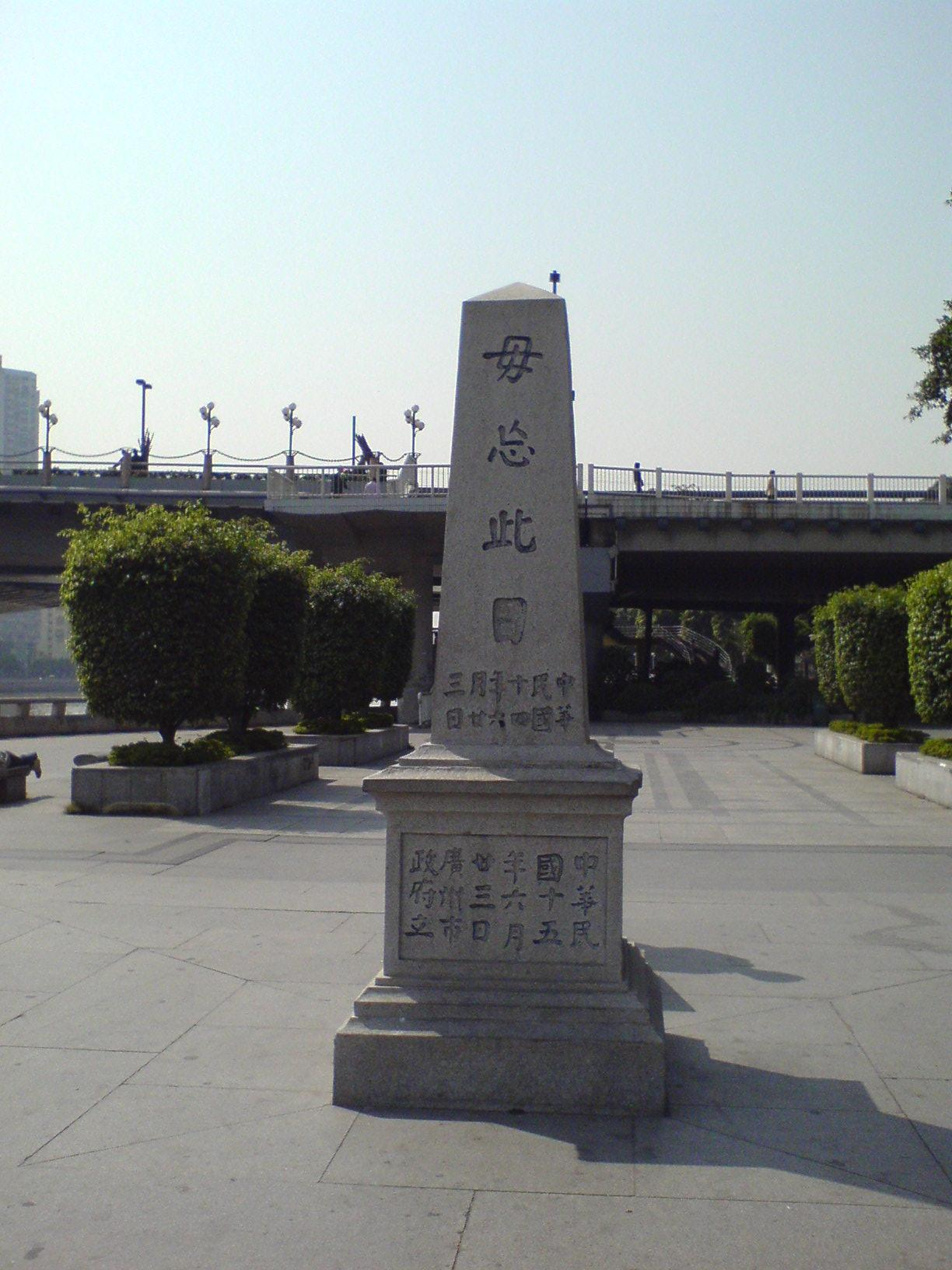 The Monument of Shaji massacre near the Shameen Island(Shamian), Sai Kwan(Liwan District), Canton(Guangzhou), China.